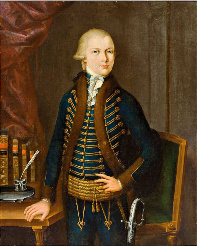 Portrait of Ferdinand IV of Limburg Stirum (1785-1800), in uniform, aged 11.